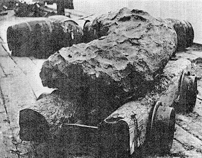 'Huge' Copper nugget from the Minong Mining Co. copper mine (c. 1870s). Mine was located on Isle Royale, above the Upper Peninsula of Michigan.